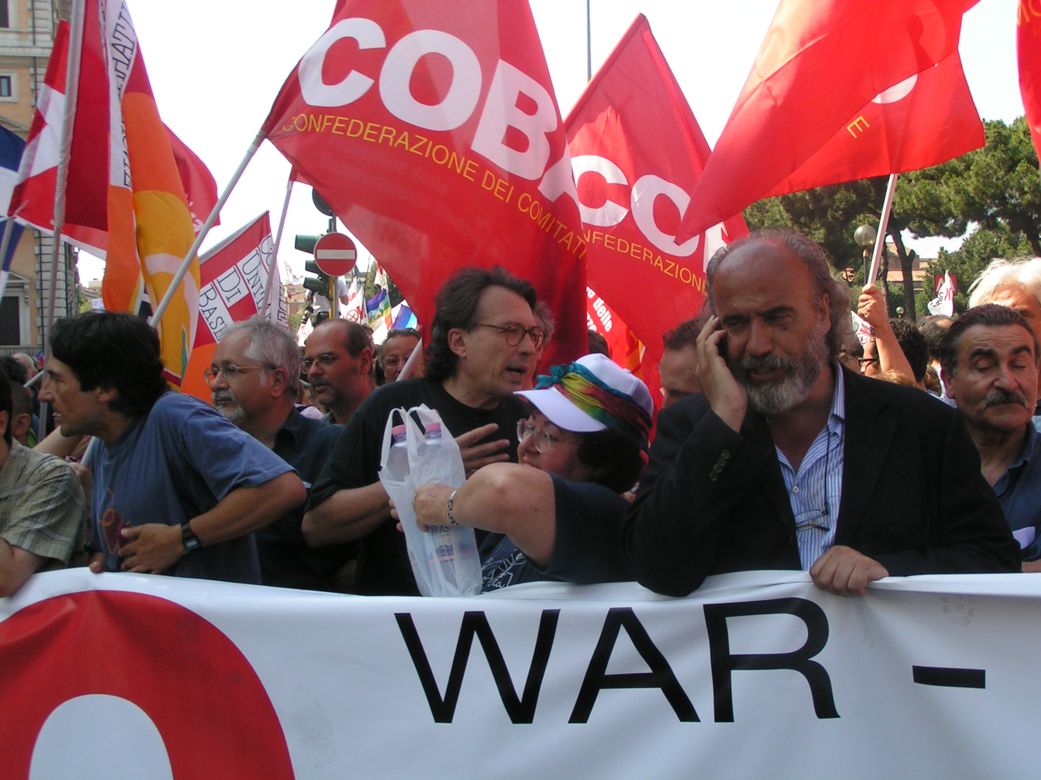 Piero Bernocchi, Giorgio Cremaschi and Marco Ferrando marching against the war in IRAQ on the day Bush was in Rome (9th June 2007). Other version Image:Ferrando No Bush No War Day.jpgNo Bush No War Day